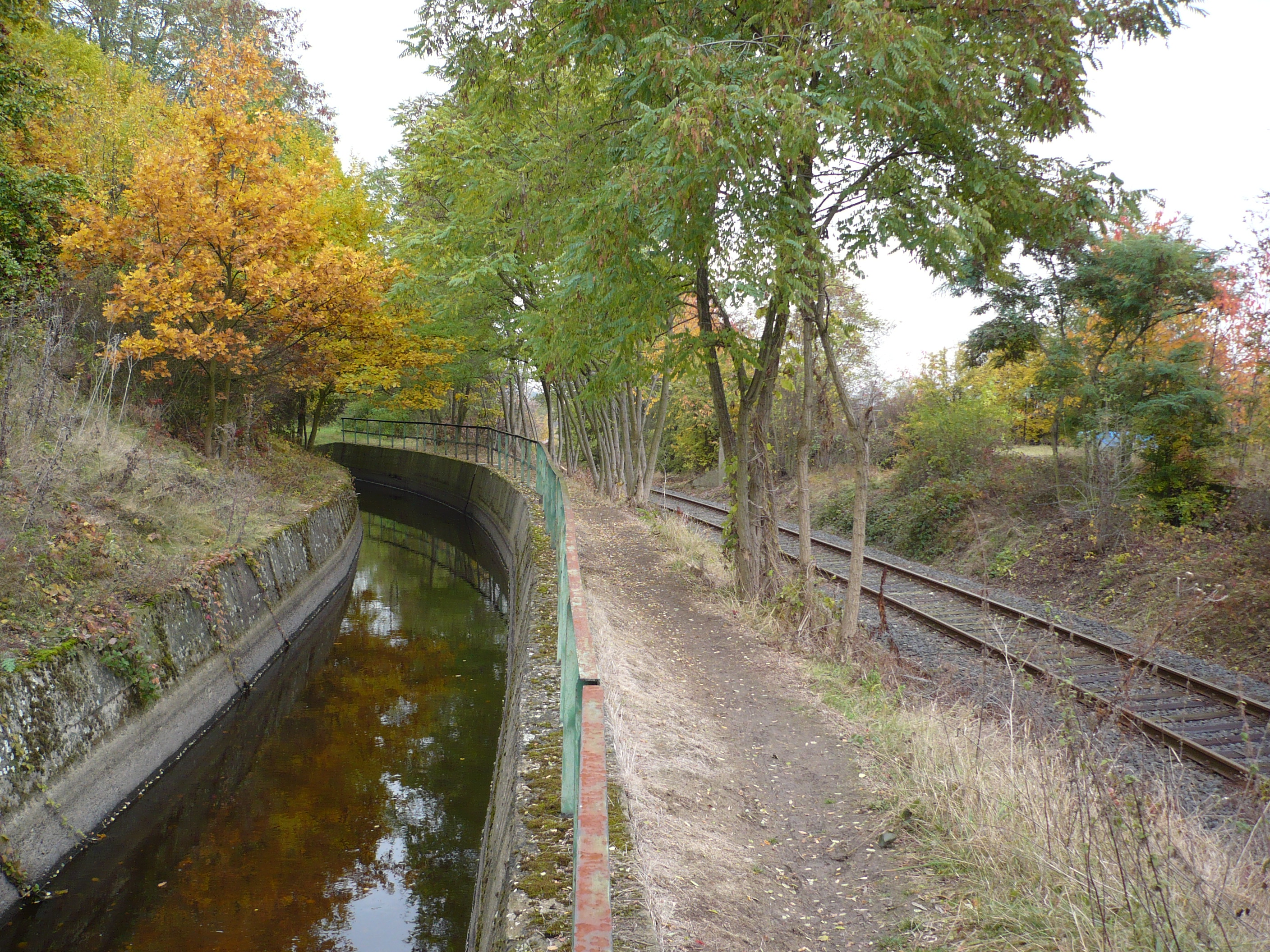 Ohře-Bílina canal and railway line Chomutov-Vejprty